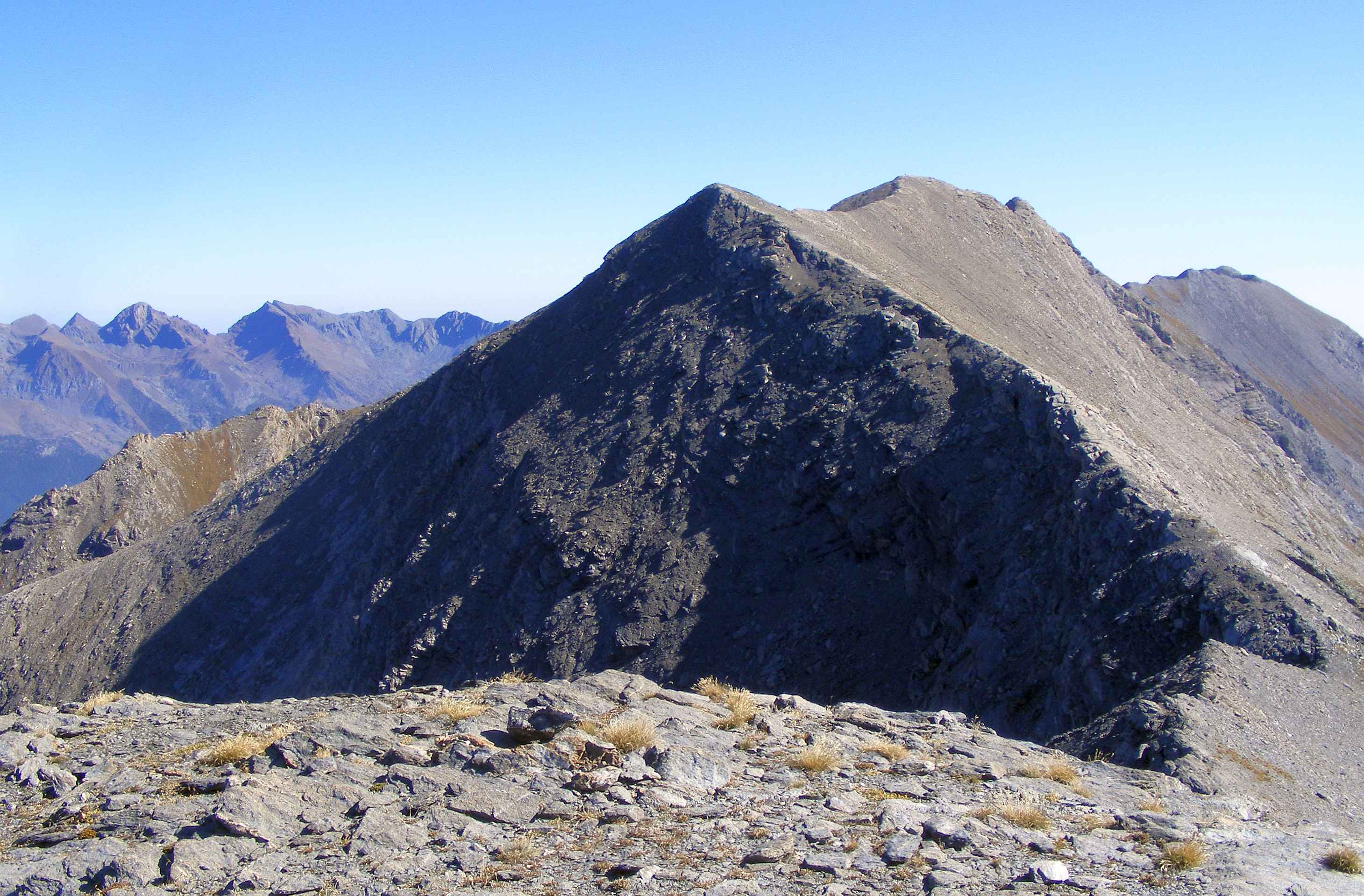 Bric Rosso (Cottian Alps, TO, Italy) seen from Mount Fea Nera; on its right Truc Cialabrie, on its right mounts Cristalliera, Malanotte and Pian Paris